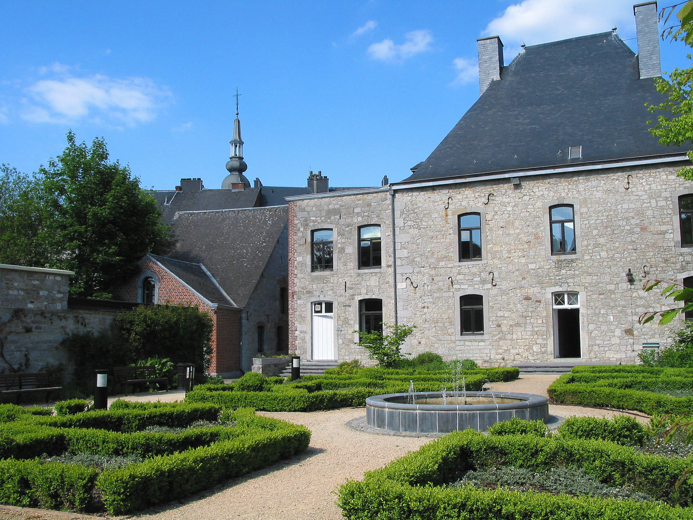 Marche-en-Famenne (Belgium), the Jadot park.